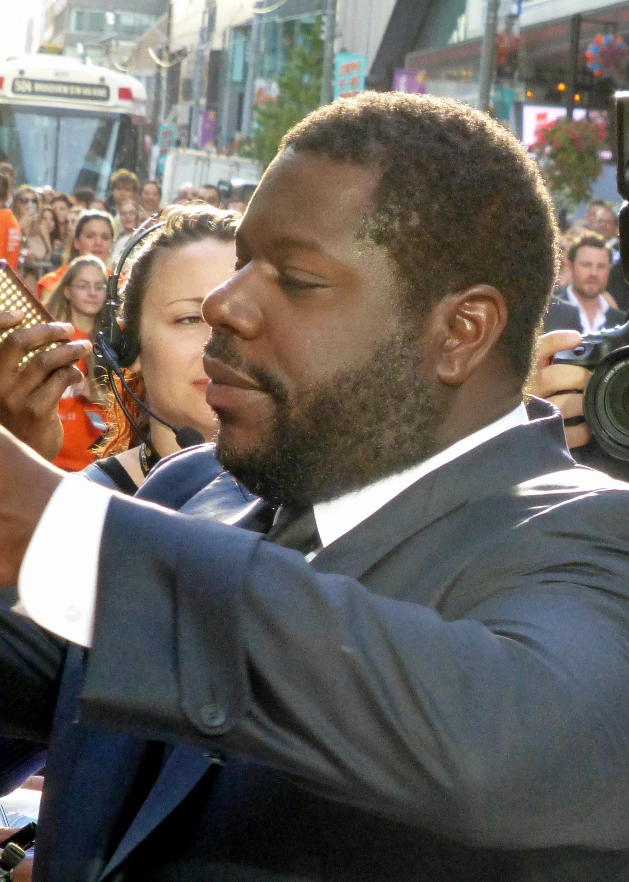 Steve McQueen at the premiere of 12 Years a Slave, 2013 Toronto Film Festival